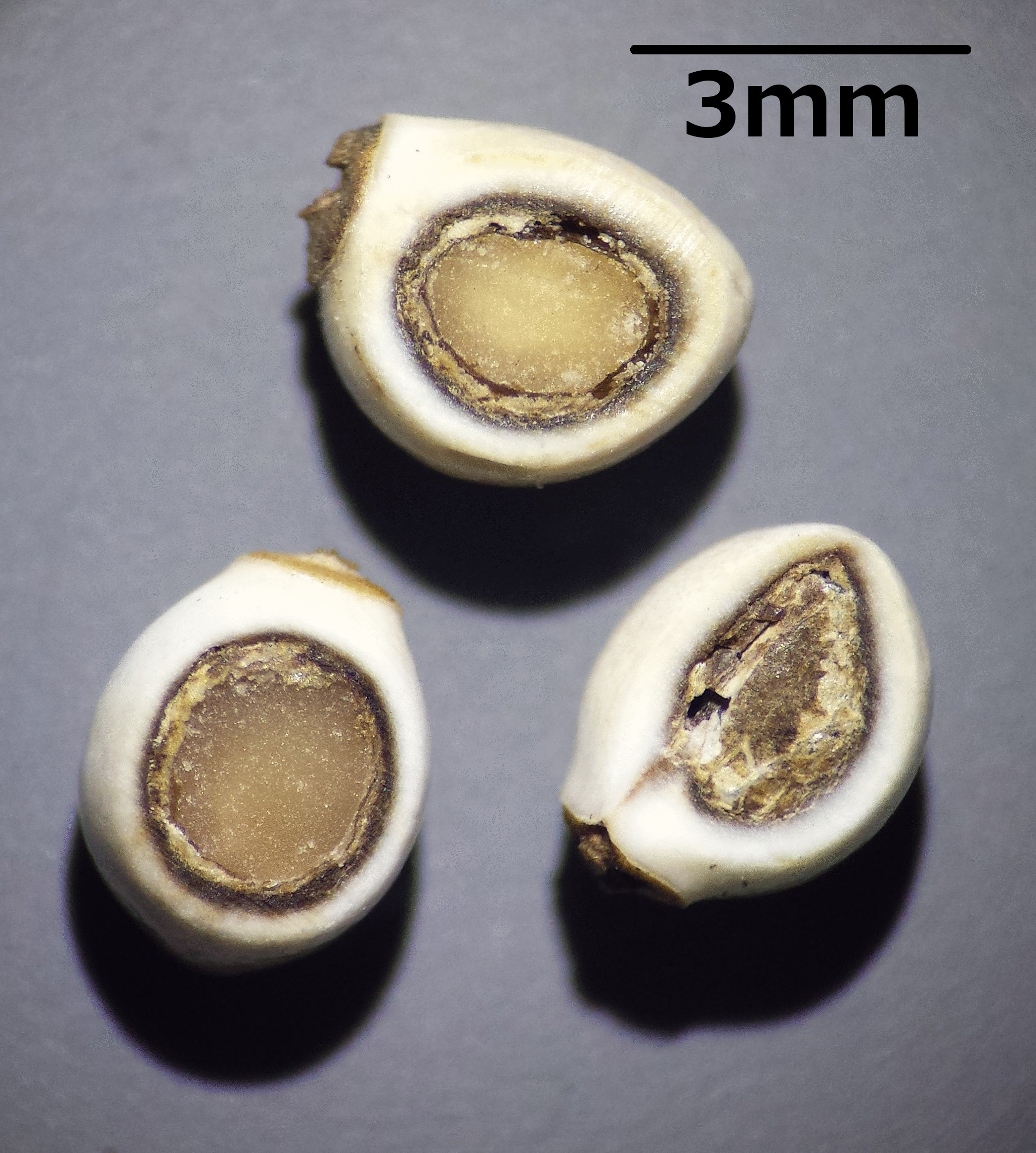 Fruits, opened Taxon: Buglossoides purpurocaerulea (sensu Fischer et al. EfÖLS 2008) Location: near Niederhollabrunn, district Korneuburg, Lower Austria - ca. 330 m a.s.l. Habitat: border of a wood